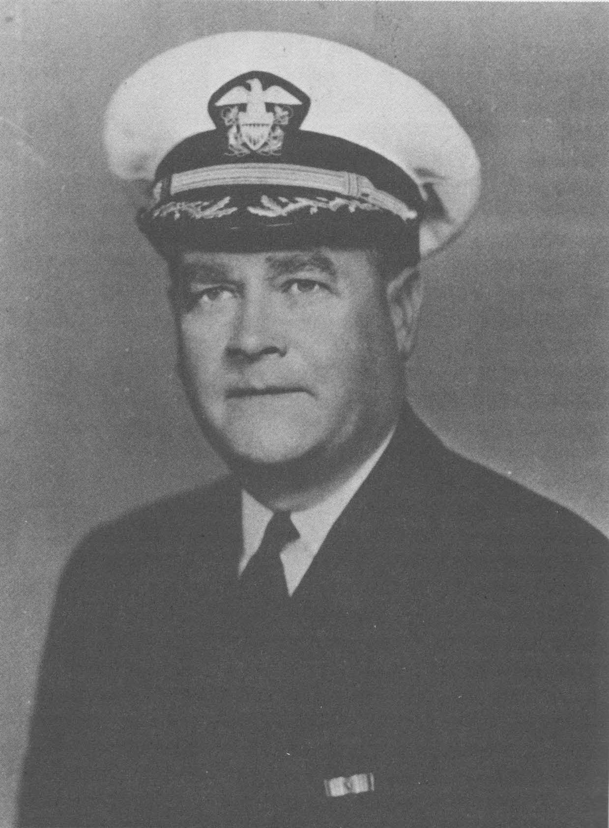 United States Navy Captain Gilbert C. Hoover, captain of the USS Helena (CL-50) during World War II